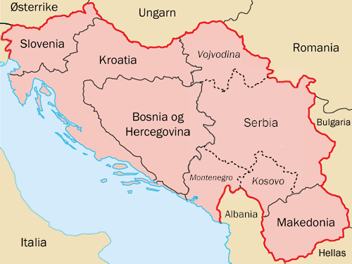 Map over Yugoslavia before the split with norwegian names